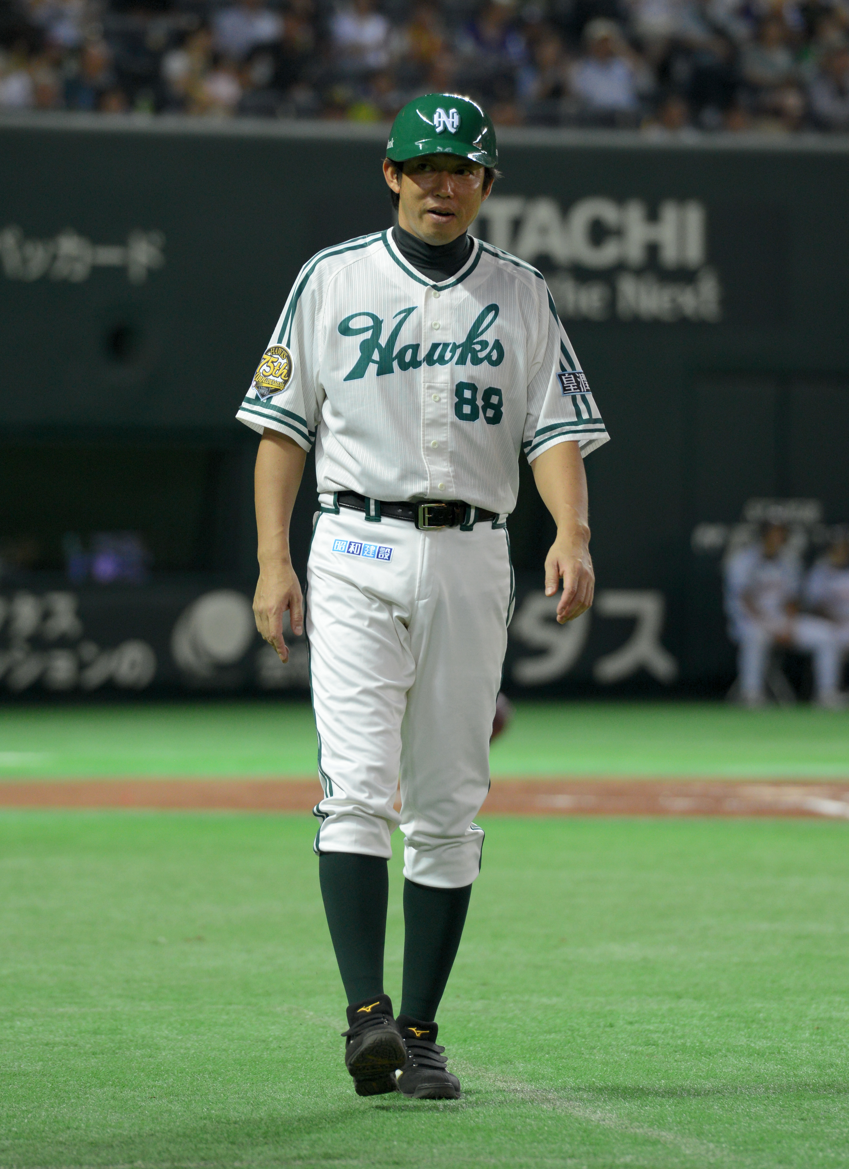 Yusuke Torigoe, coach of the Fukuoka SoftBank Hawks, at Fukuoka Dome.